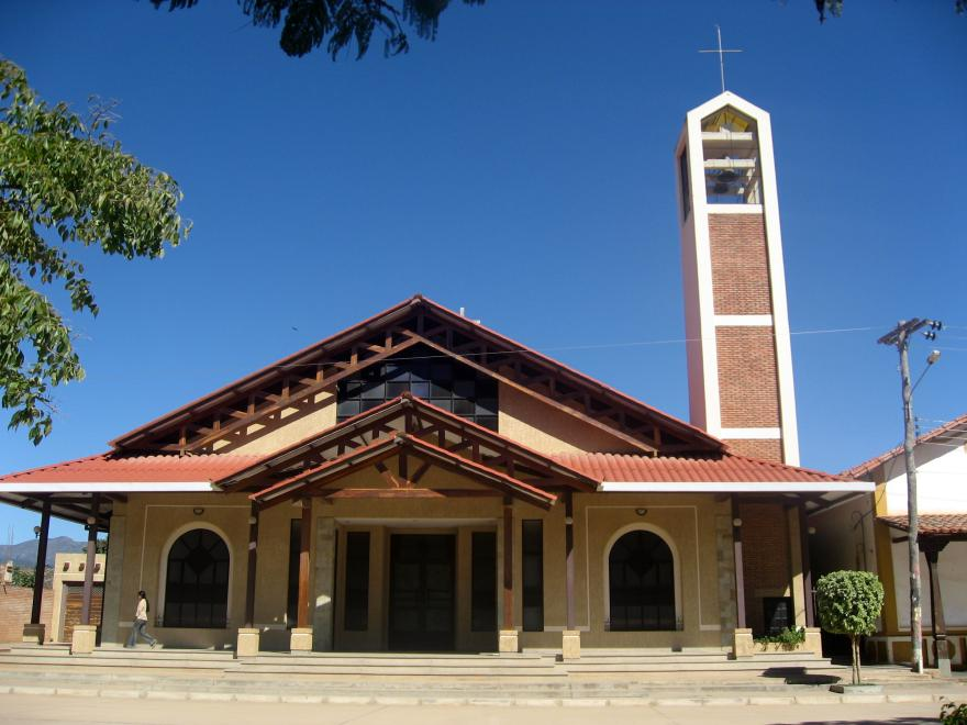 Catholic Church of Mairana